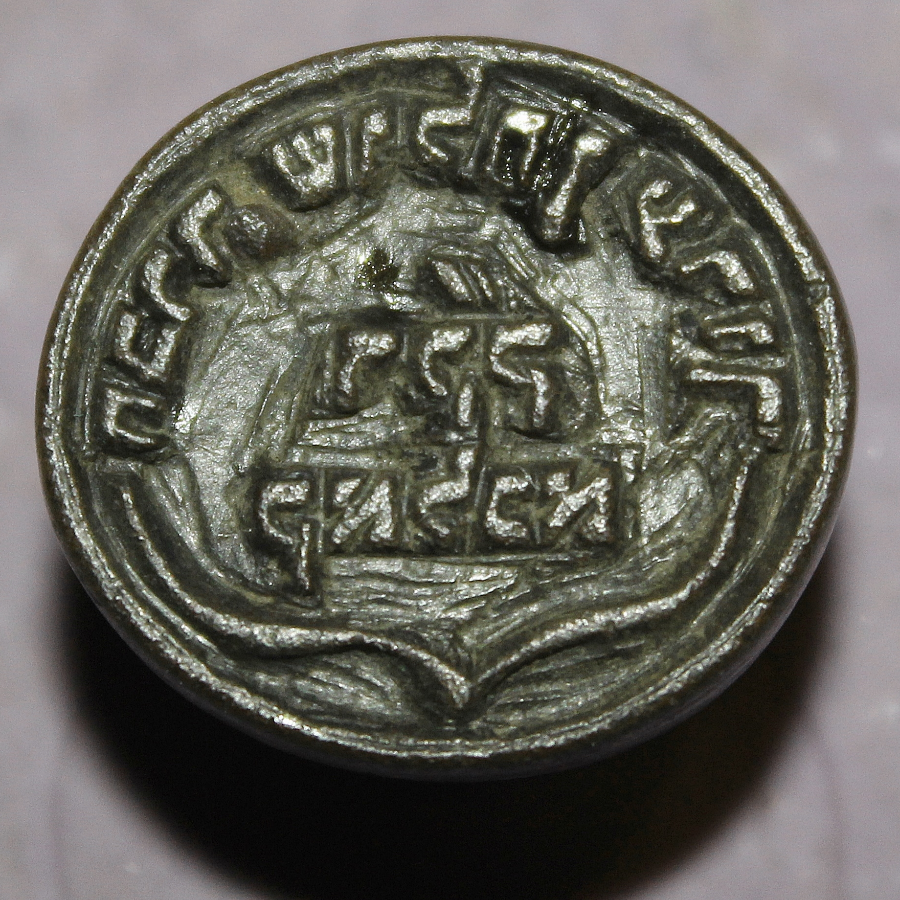 Old Jewish seal from Shulchan Aruch Society in Kolno, Poland. 19 century, from private collections